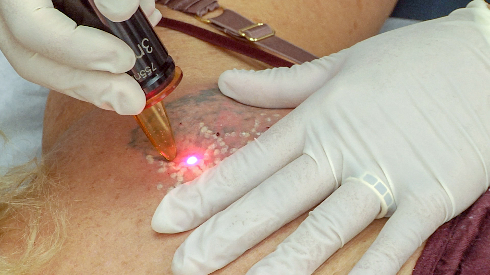 Laser tattoo removal on female using Q-switch laser